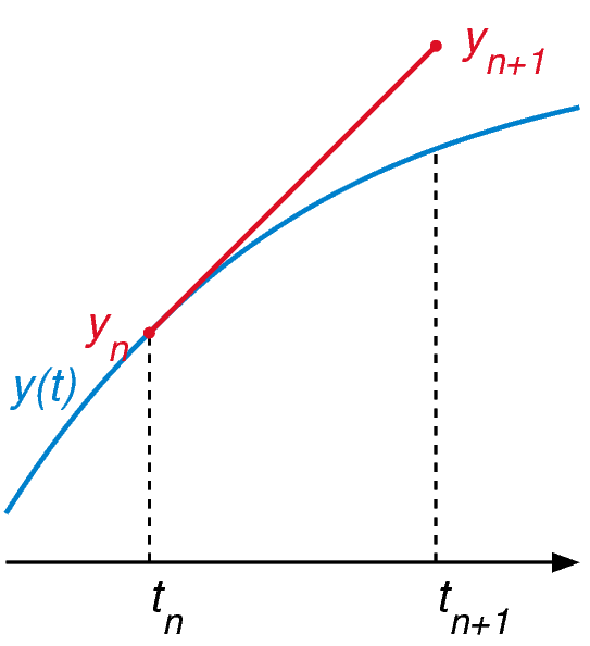 Illustration of Forward Euler method, based on Oleg Alexandrov' script